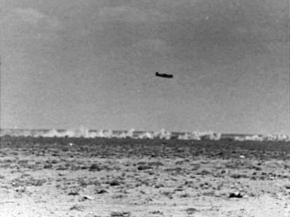 A German Messerschmitt Me 109E from Jagdgeschwader 27 strafing Australian front lines in North Africa.